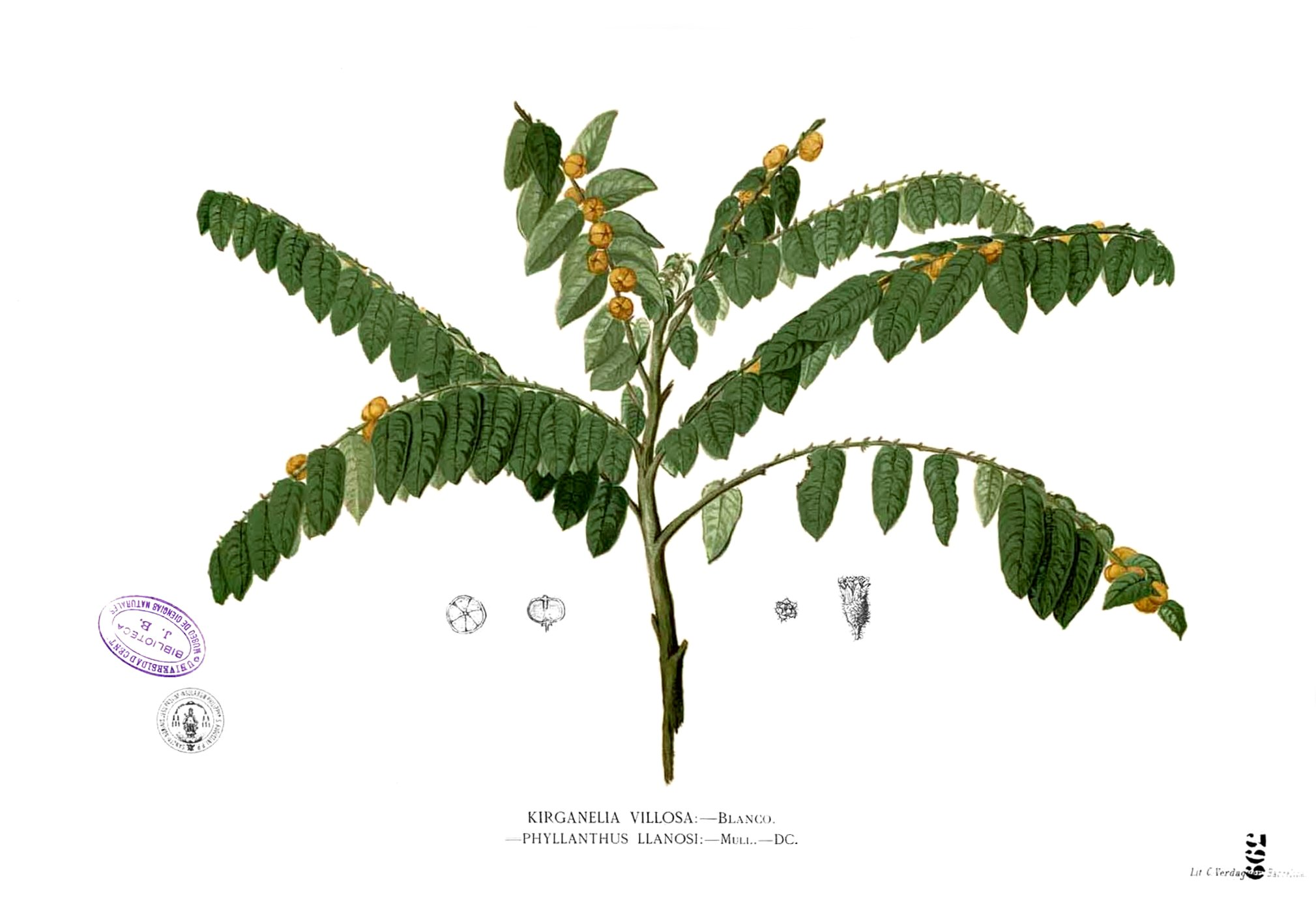 Plate from book